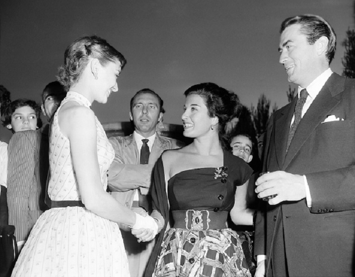 Audrey Hepburn, Silvana Pampanini e Gregory Peck a Roma